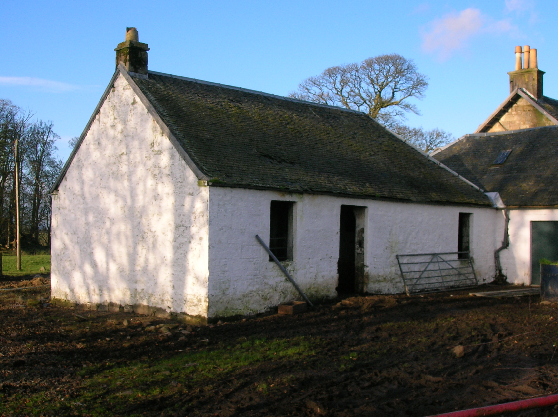 The old cot house at Polnoon Farm, East Renfrewshire, Scotland